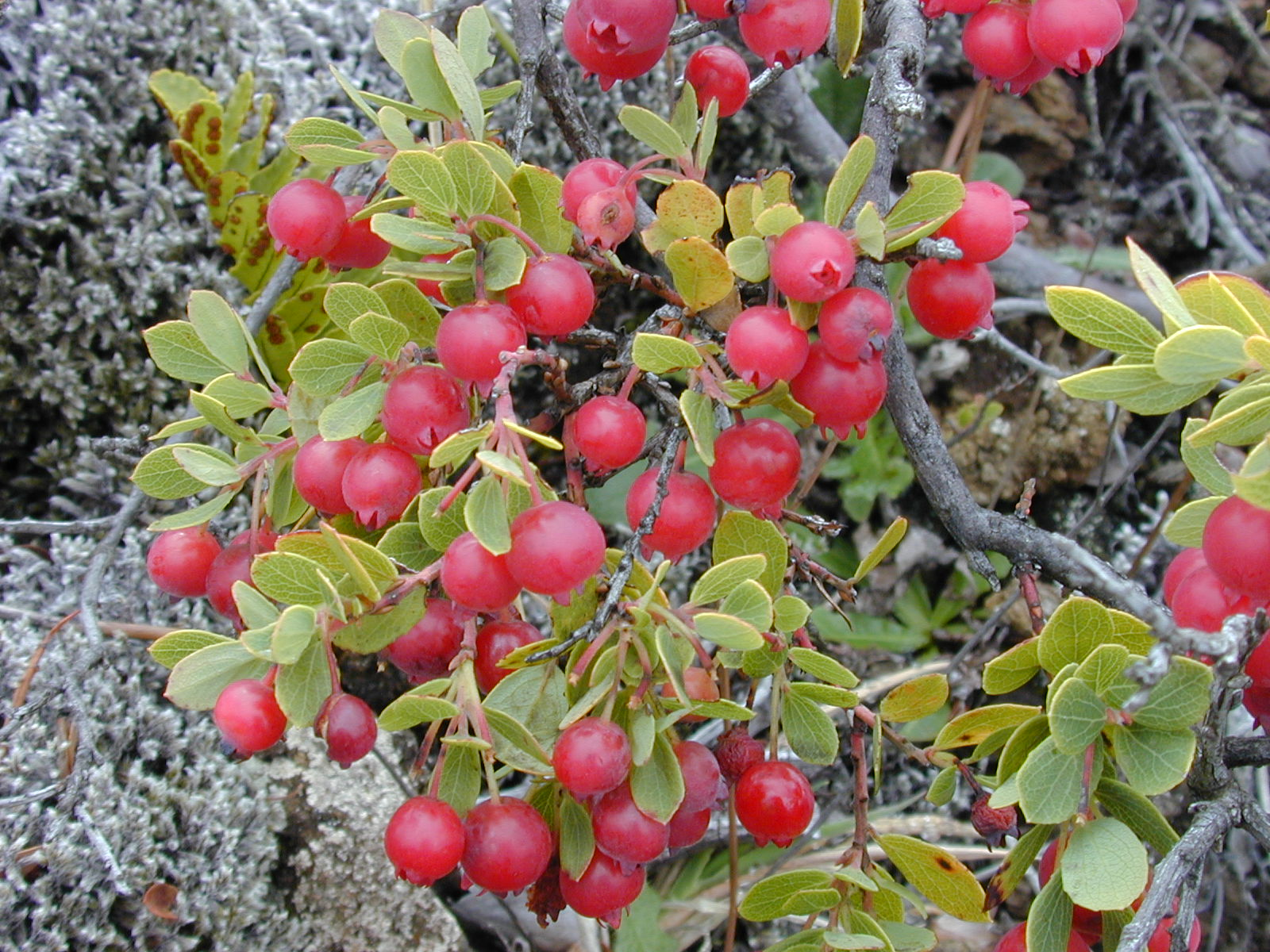 Vaccinium reticulatum (fruit). Location: Maui, Holua Haleakala National Park